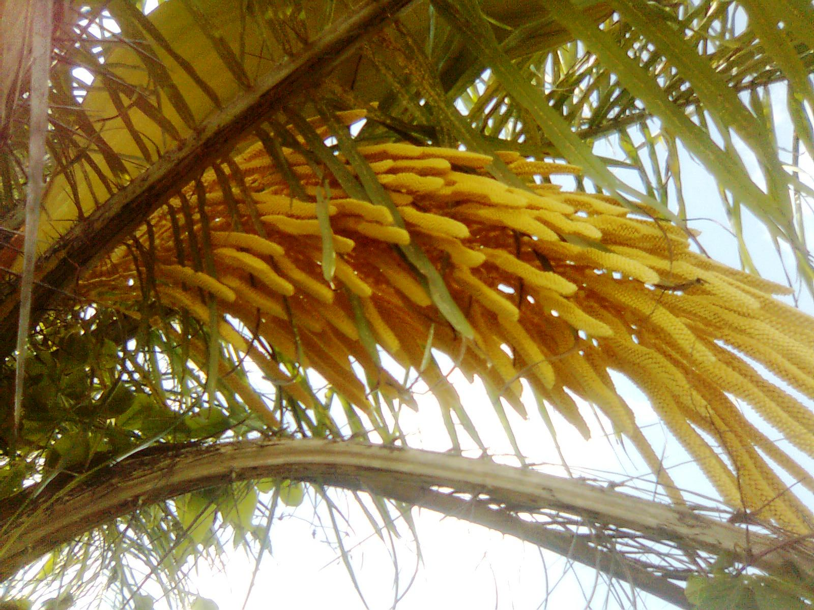 Inflorescens of Acrocomia aculeata